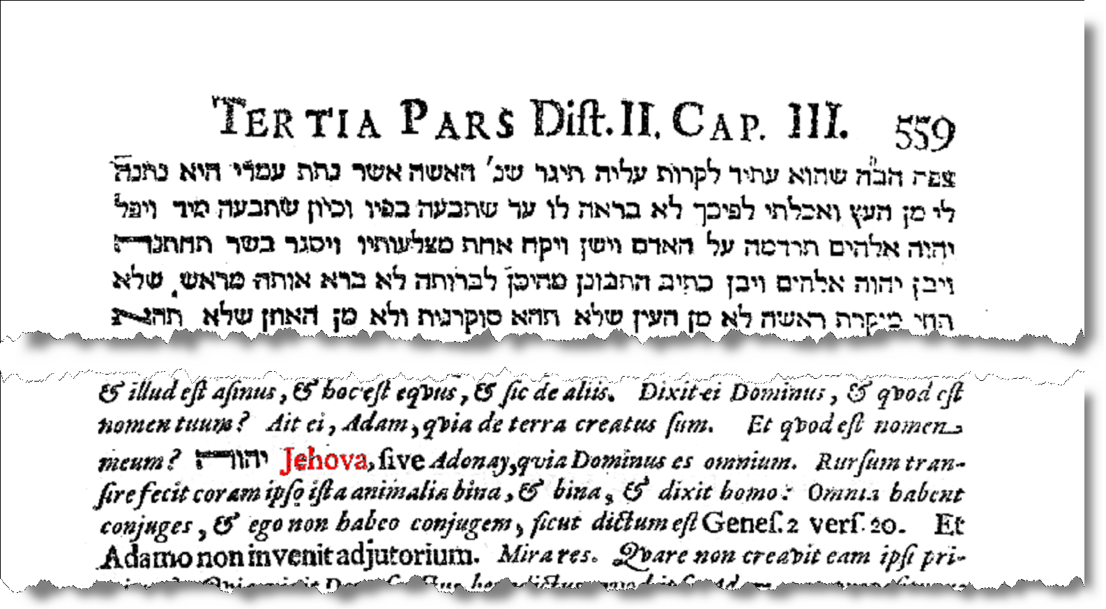 The Latin word Jehova accompanying יהוה in the 1687 Leipzig edition of Raymond Martin's Pugio Fidei adversus Mauros et Iudaeos. The 1651 Paris edition uses the spelling Iehoua on its corresponding page 448. The original was written in about 1270.